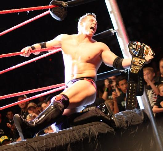 The Miz poses with the United States championship title, which he stole from champion Kofi Kingston on WWE Raw, at a house show in Halifax, Nova Scotia, Canada.